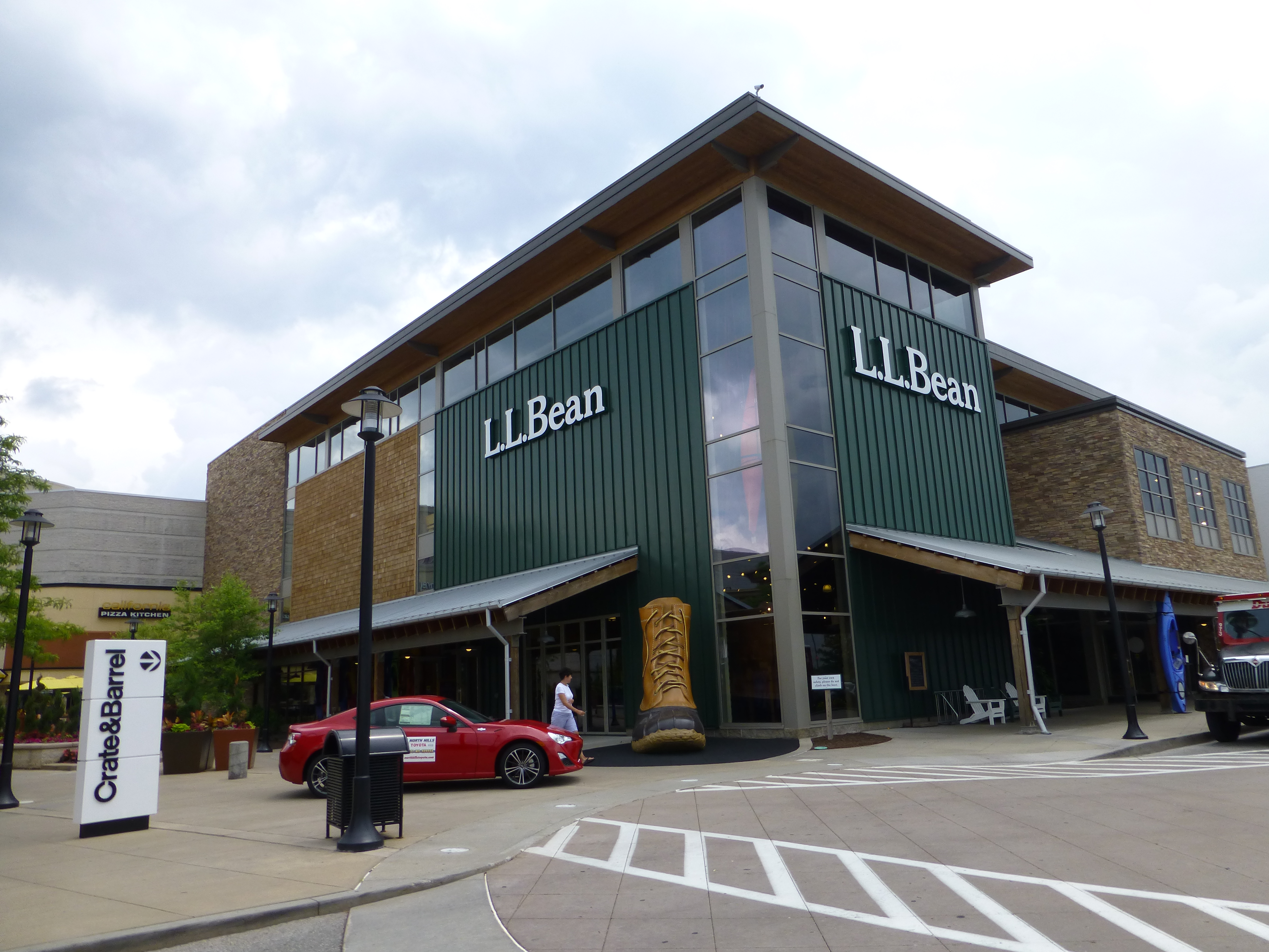 An L.L.Bean store in Pittsburgh, Pennsylvania.